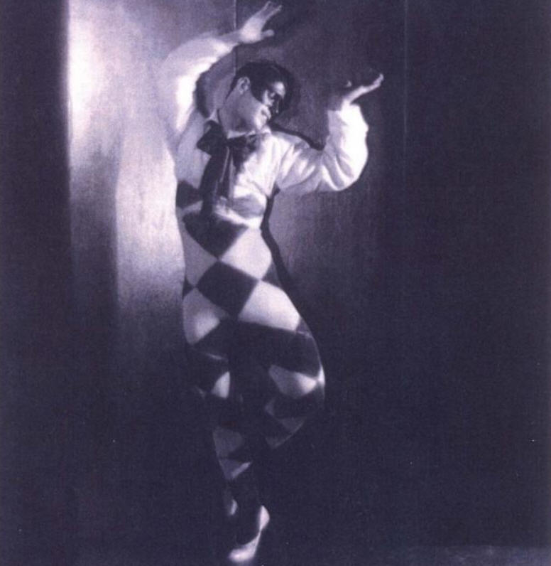 Nikinsky as Arlequin by Adolf de Meyer 1910 Paris